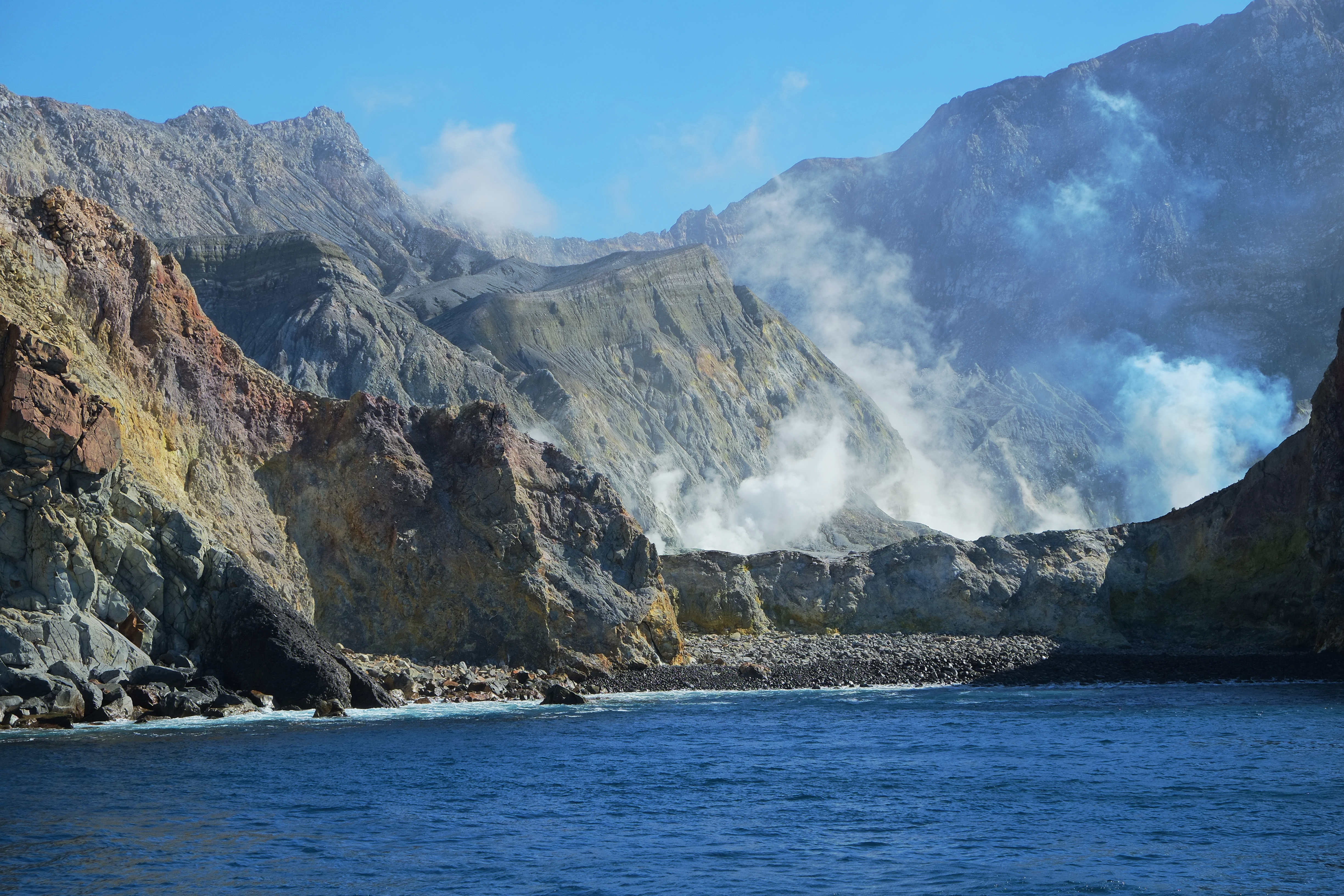 View from bay into White Island's interior